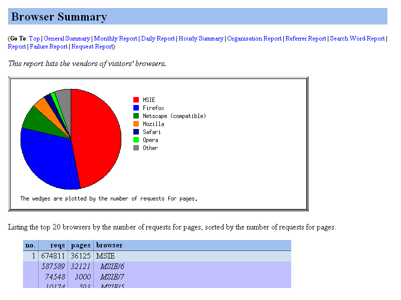 Analog running on Apache/Linux